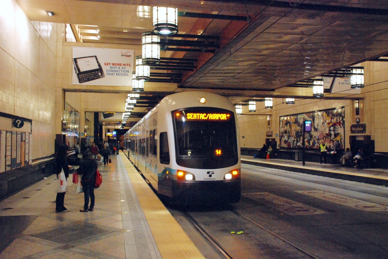 A Link light rail train at Westlake station, starting to depart for Sea-Tac Airport.